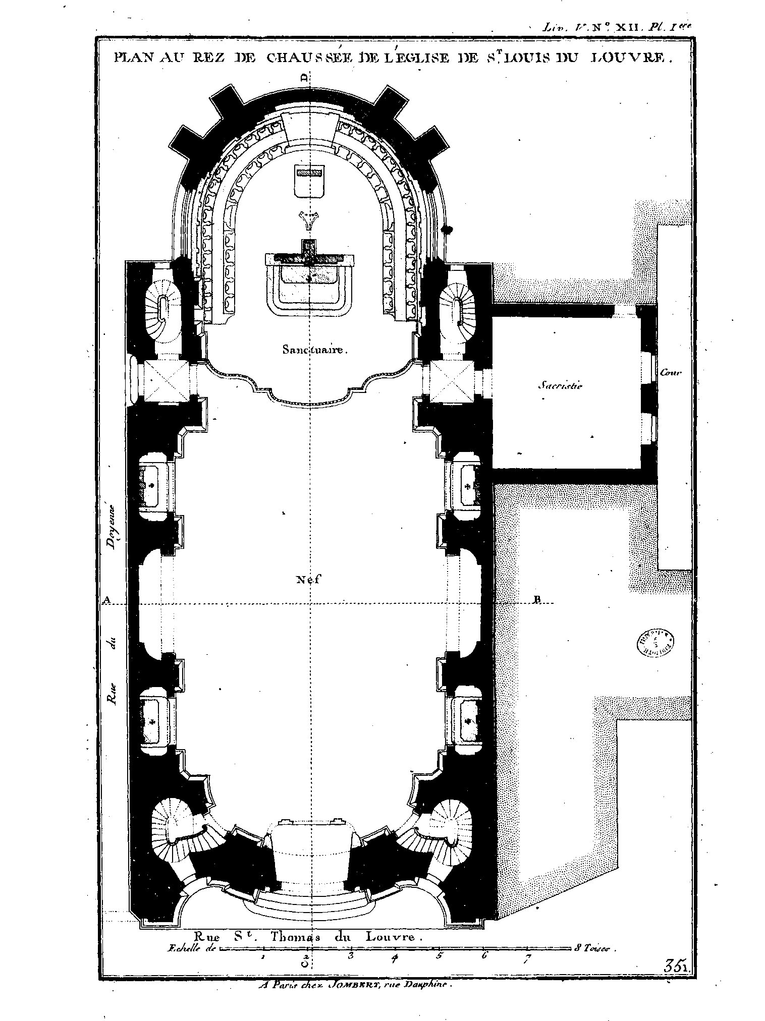 Plan of the ground floor of the church Saint-Louis-du-Louvre in the book Architecture françoise, ou Recueil des plans, élévations, coupes et profils des églises, maisons royales, palais, hôtels & édifices les plus considérables de Paris. The church was built in 1744 and destroyed at the begin of the 19th century. The architect of the church was Thomas Germain.